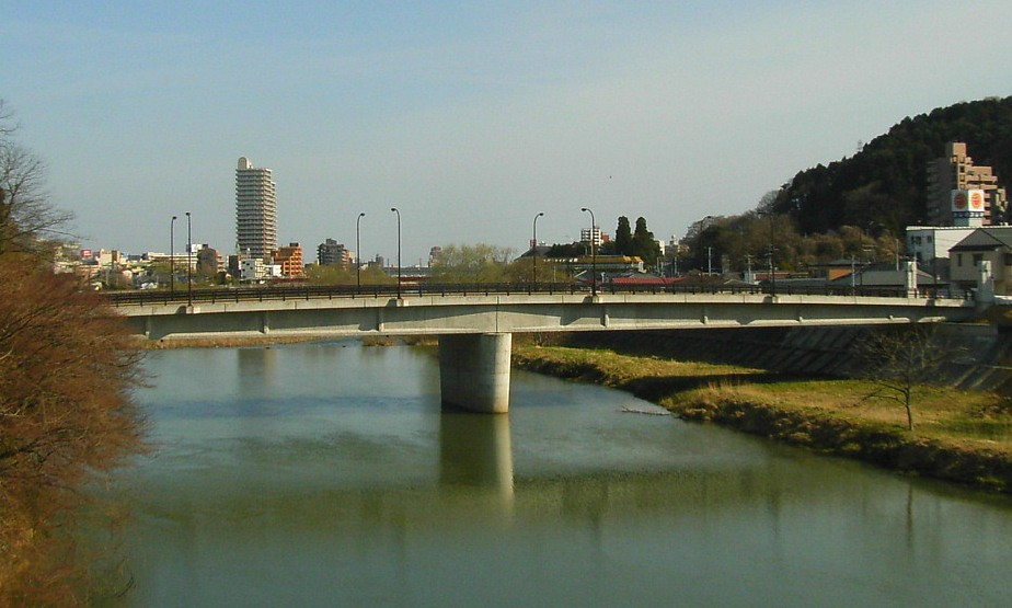 Atago Bridge of the Hirose River. Sendai, Miyagi prefetcure, Japan.